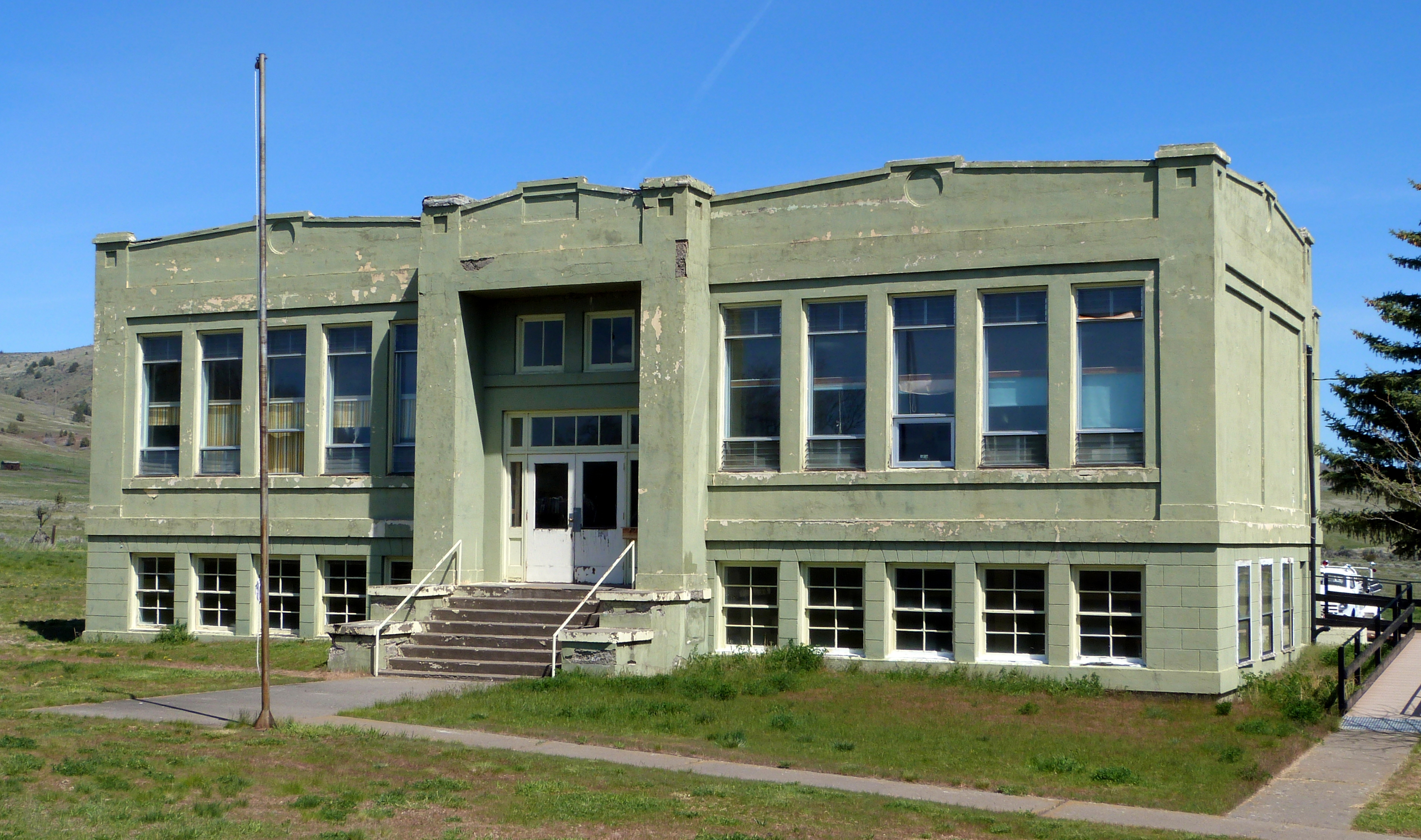 The historic Antelope School, located at 45500 McGreer Street in Antelope, Oregon, United States. No longer used as a school, the building currently houses municipal offices and a community center.